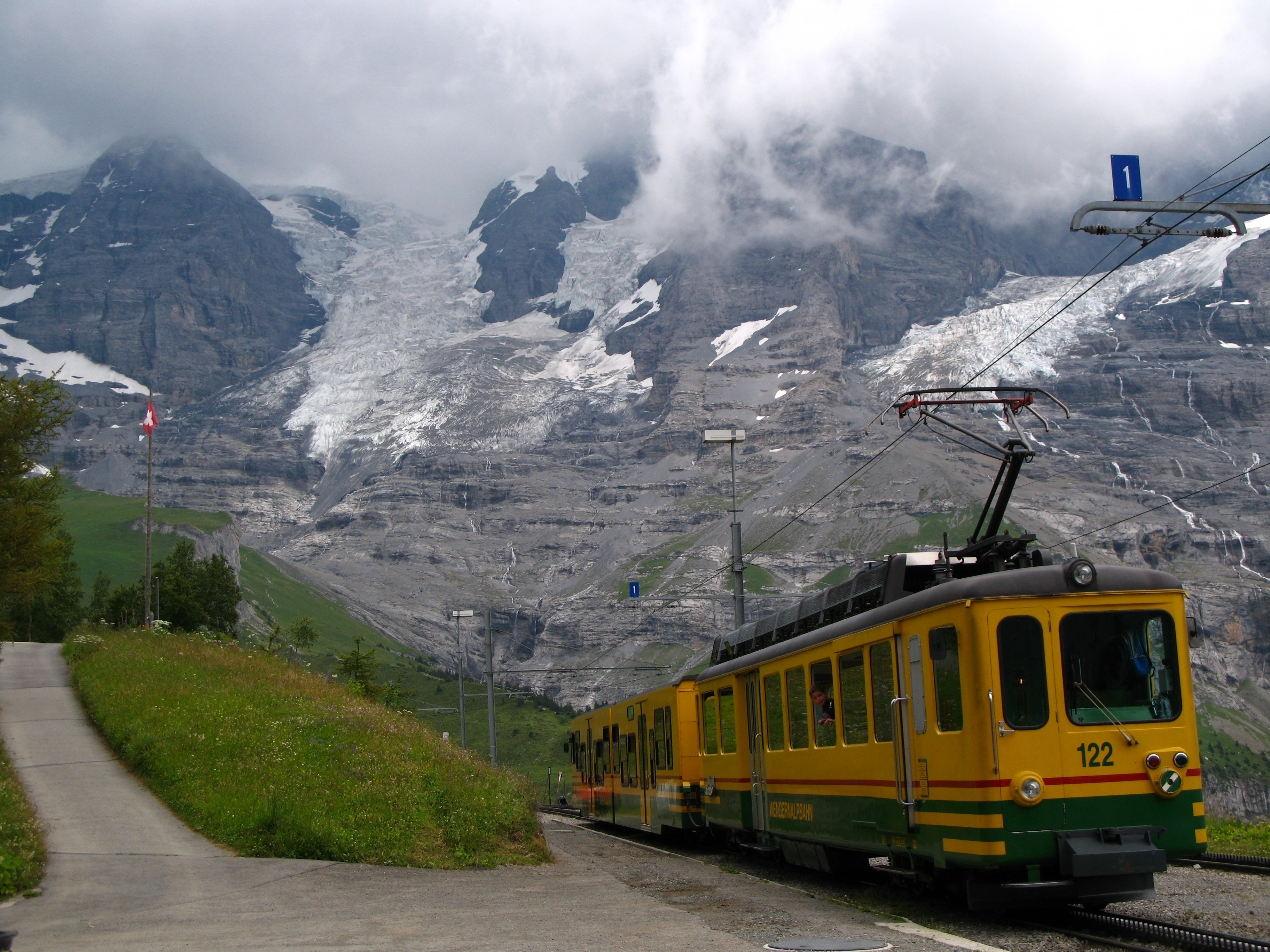 The Eiger Glacier and the Wengernalpbahn, Wengernalp, Switzerland